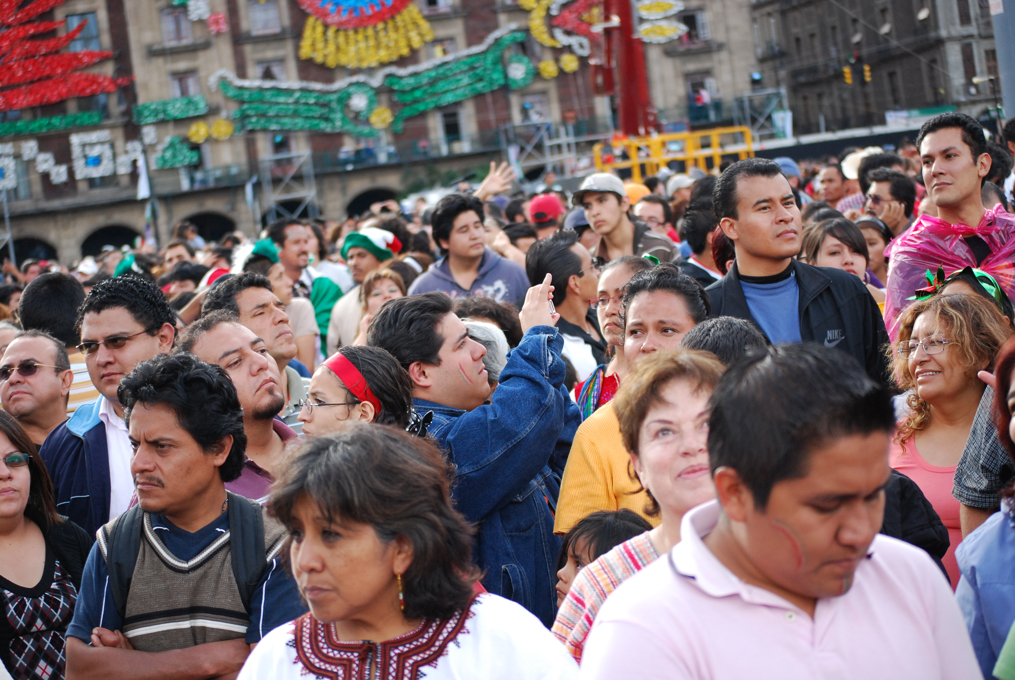 Part of the crowd waiting in the Zocalo for the Grito 2010